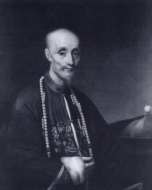 Howqua.